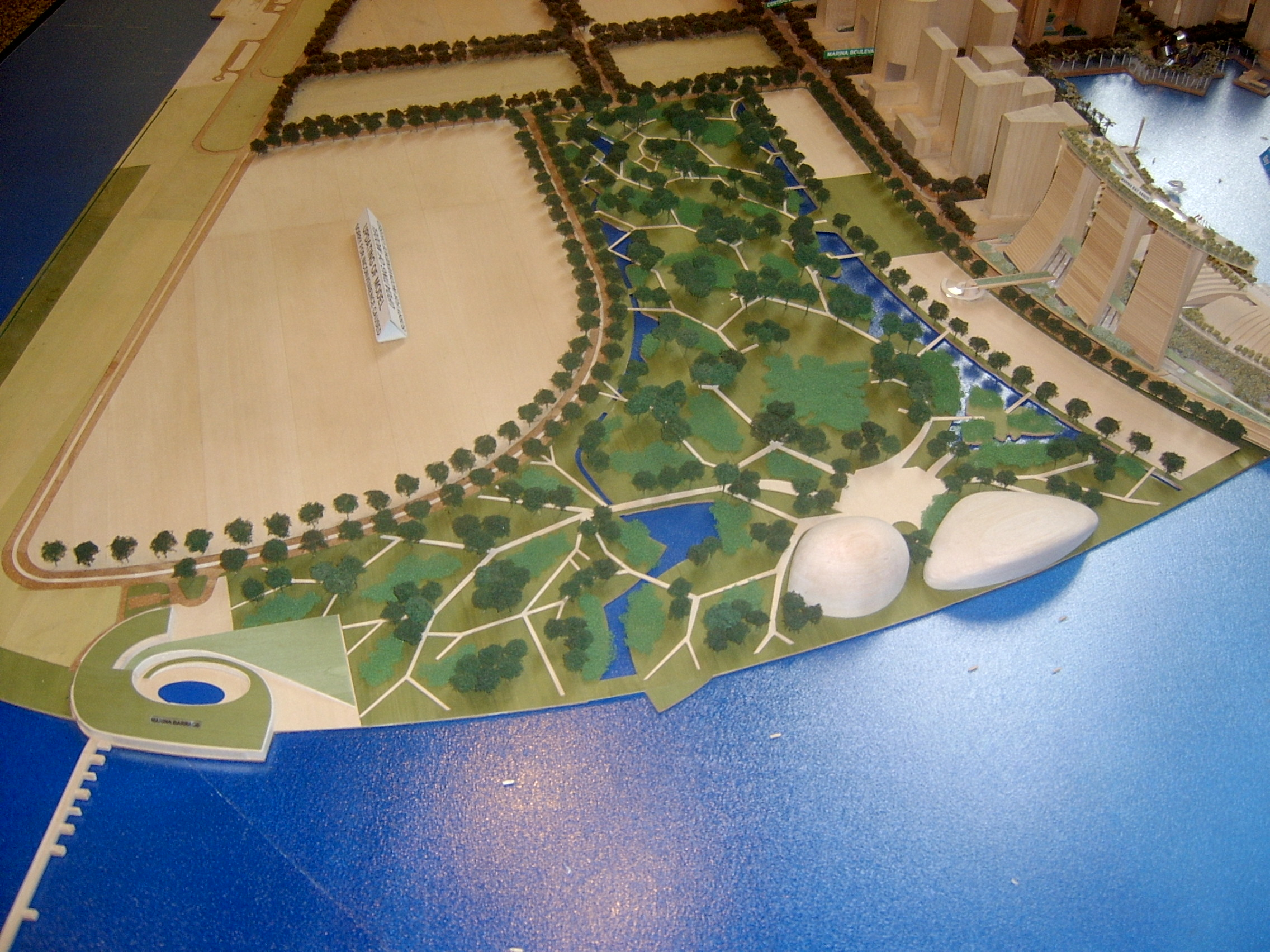 Picture taken on April 1 at the URA building.